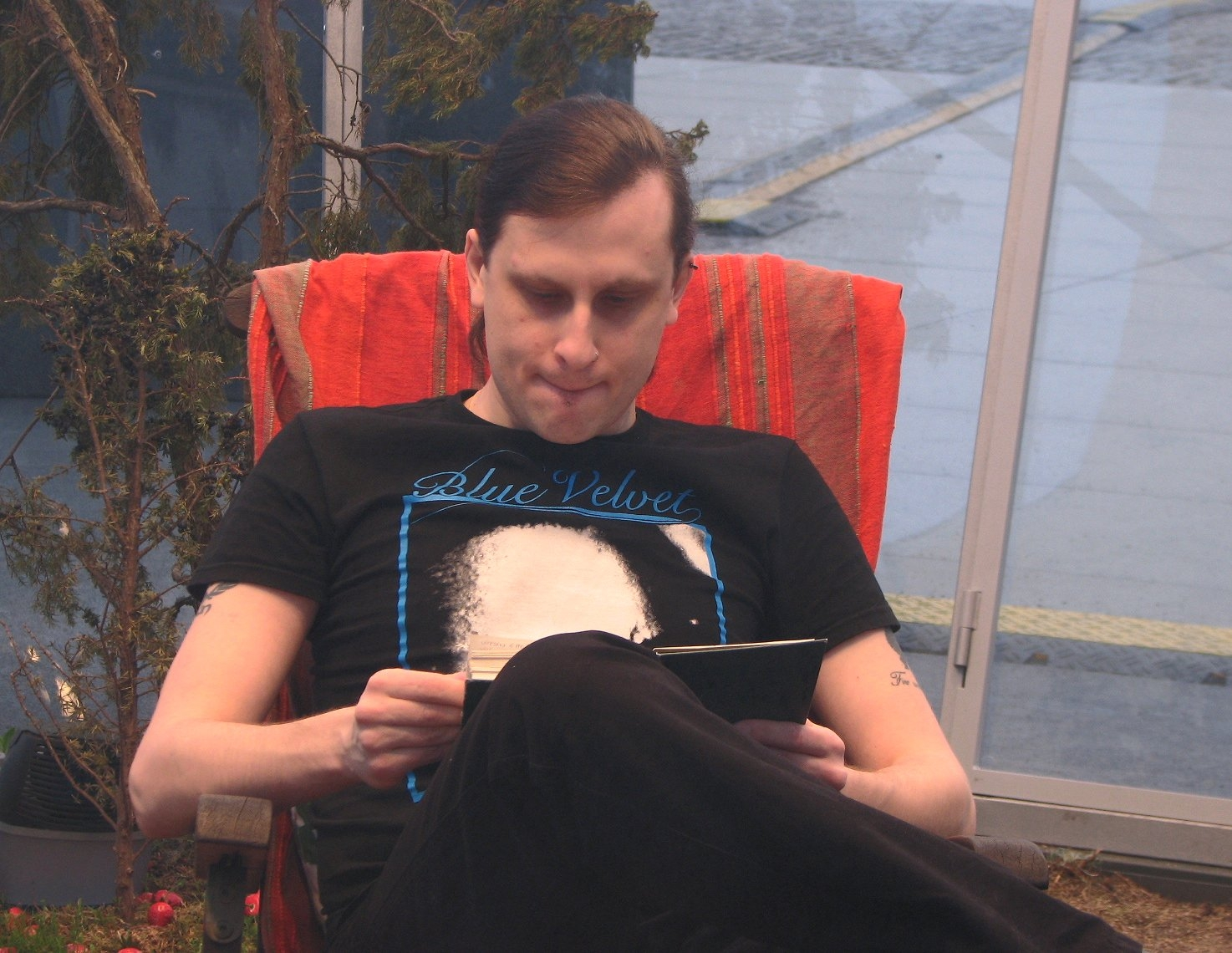 Anders Melts is a radio DJ from Estonia.